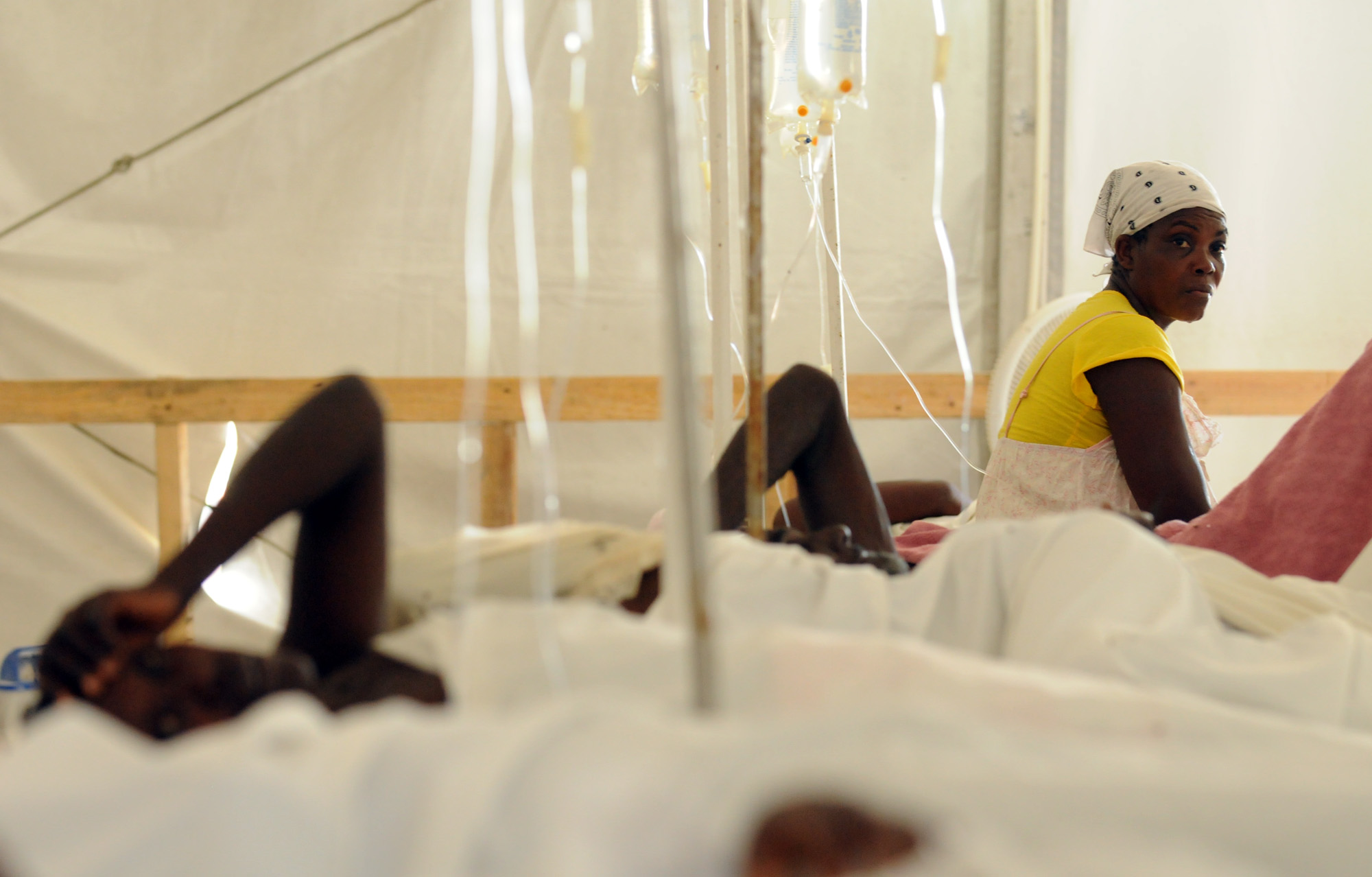 Cholera patients are treated at a center operated by USAID/OFDA grantee Partners in Health in Mirebalais, Haiti, on Jan. 26, 2011. Photo copyright Kendra Helmer/USAID All rights reserved